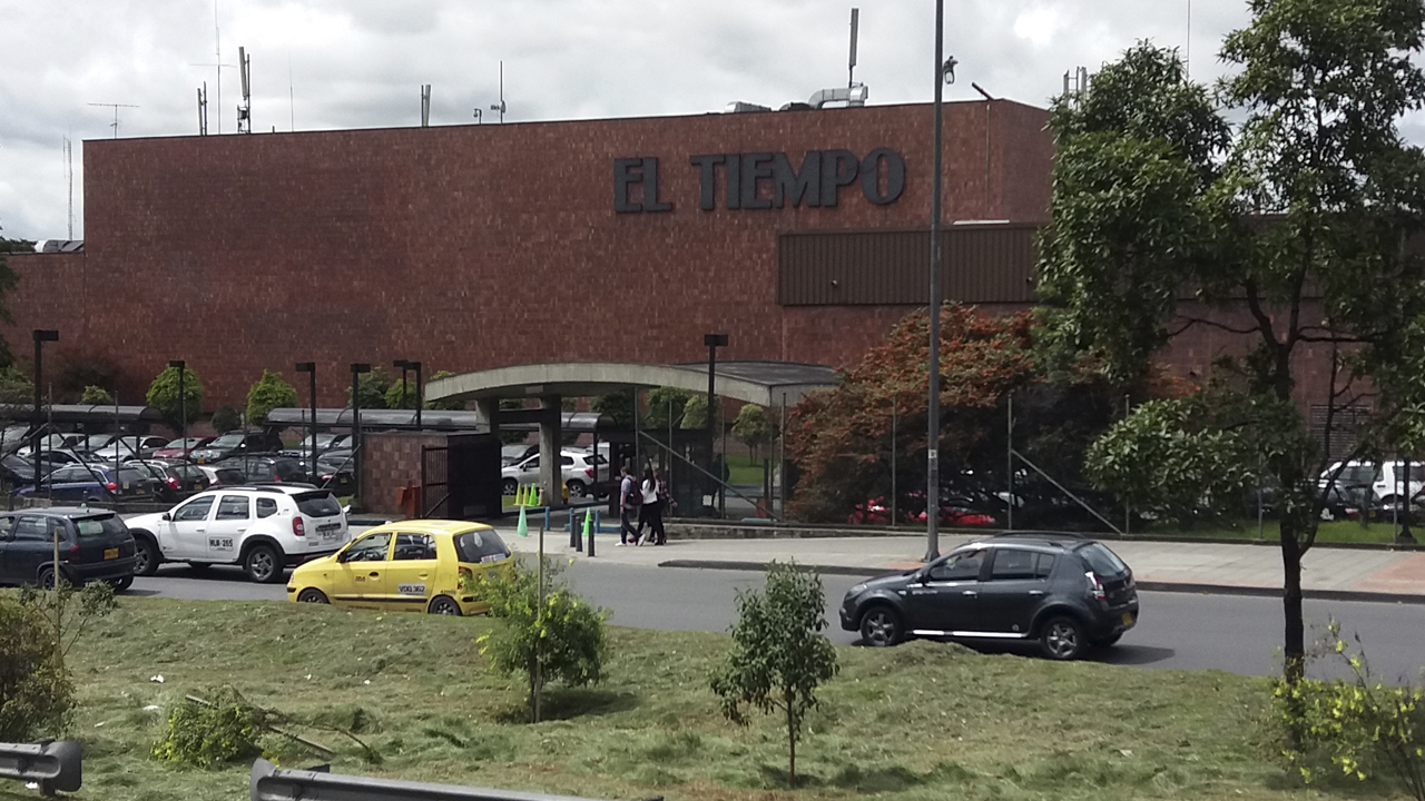 El Tiempo main office building in Bogotá, Colombia.